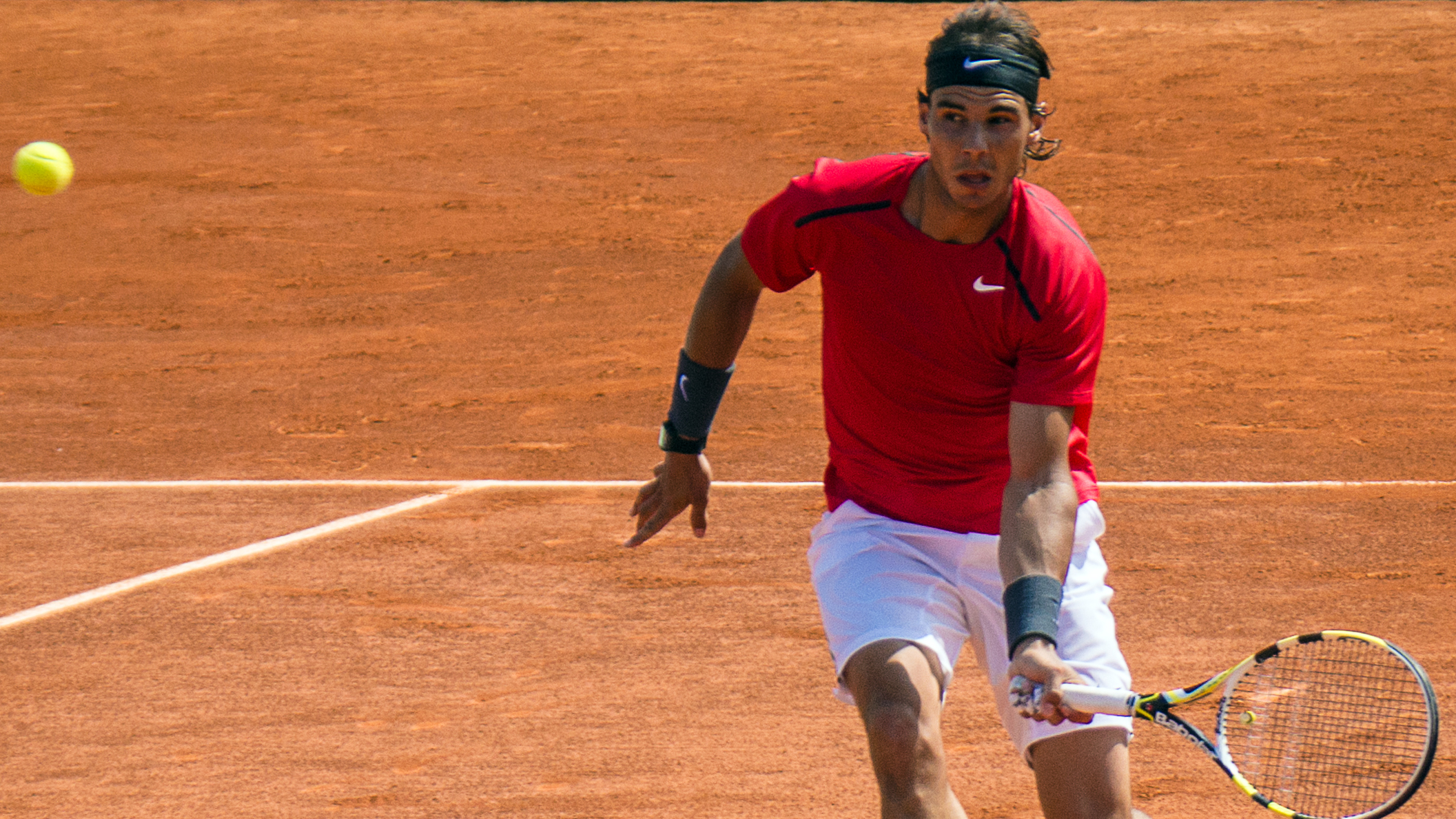 1er tour Roland Garros 2012 : Rafael Nadal (ESP) def. Simone Bolelli (ITA) - CROPPED 16/9 for French tennis project